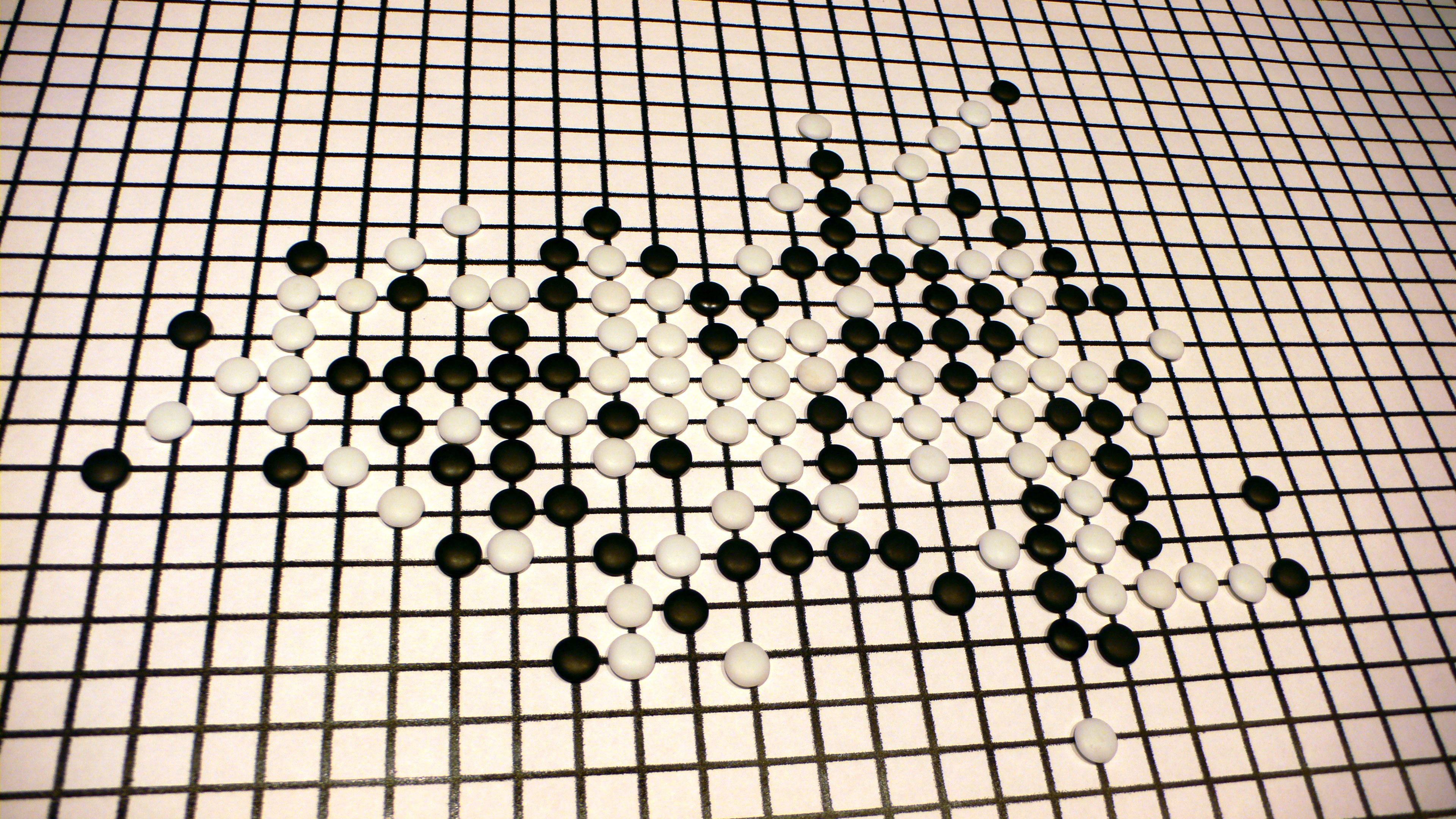 A game of Connect6 played on a large white board.